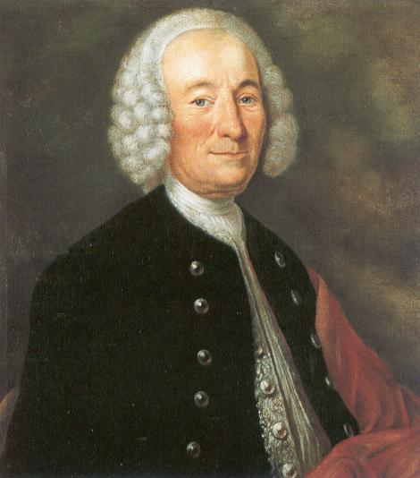 Joachim Arndt Saltzmann (1691-1771), royal court gardener at palace garden Charlottenburg, Berlin, Germany